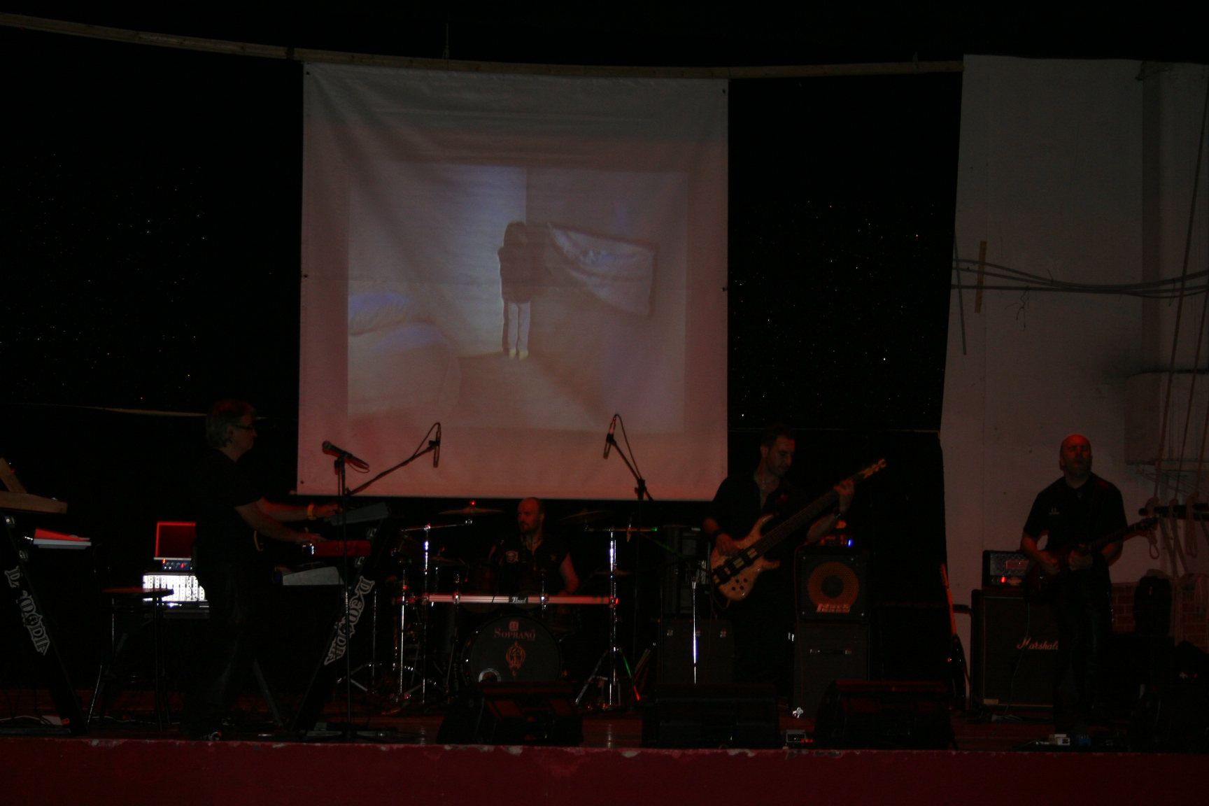 Soundtracks – A tribute to Pino Rucher (San Nicandro Garganico). The Daemonia band are playing a composition from the film Phenomena. Line up of the Daemonia band: Claudio Simonetti (keyboard), Bruno Previtali (guitar), Titta Tani (drums), Silvio Assaiante (bass guitar).